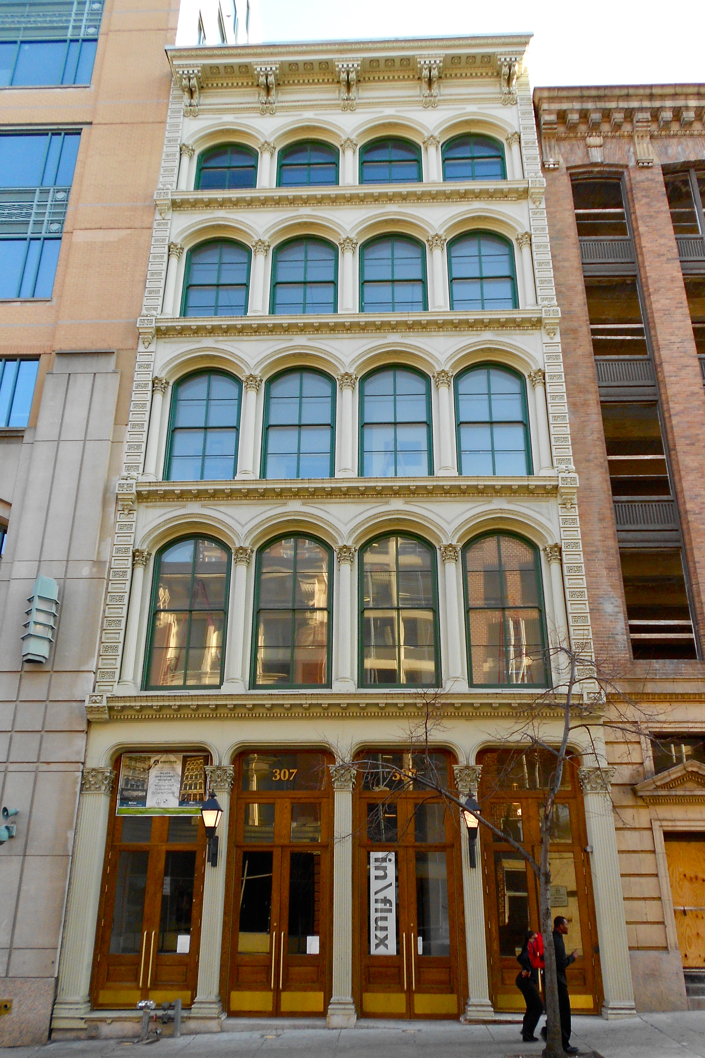 Faust Brothers Building on the NRHP since December 7, 1994. At 307-309 W. Baltimore St. in central Baltimore, Maryland.